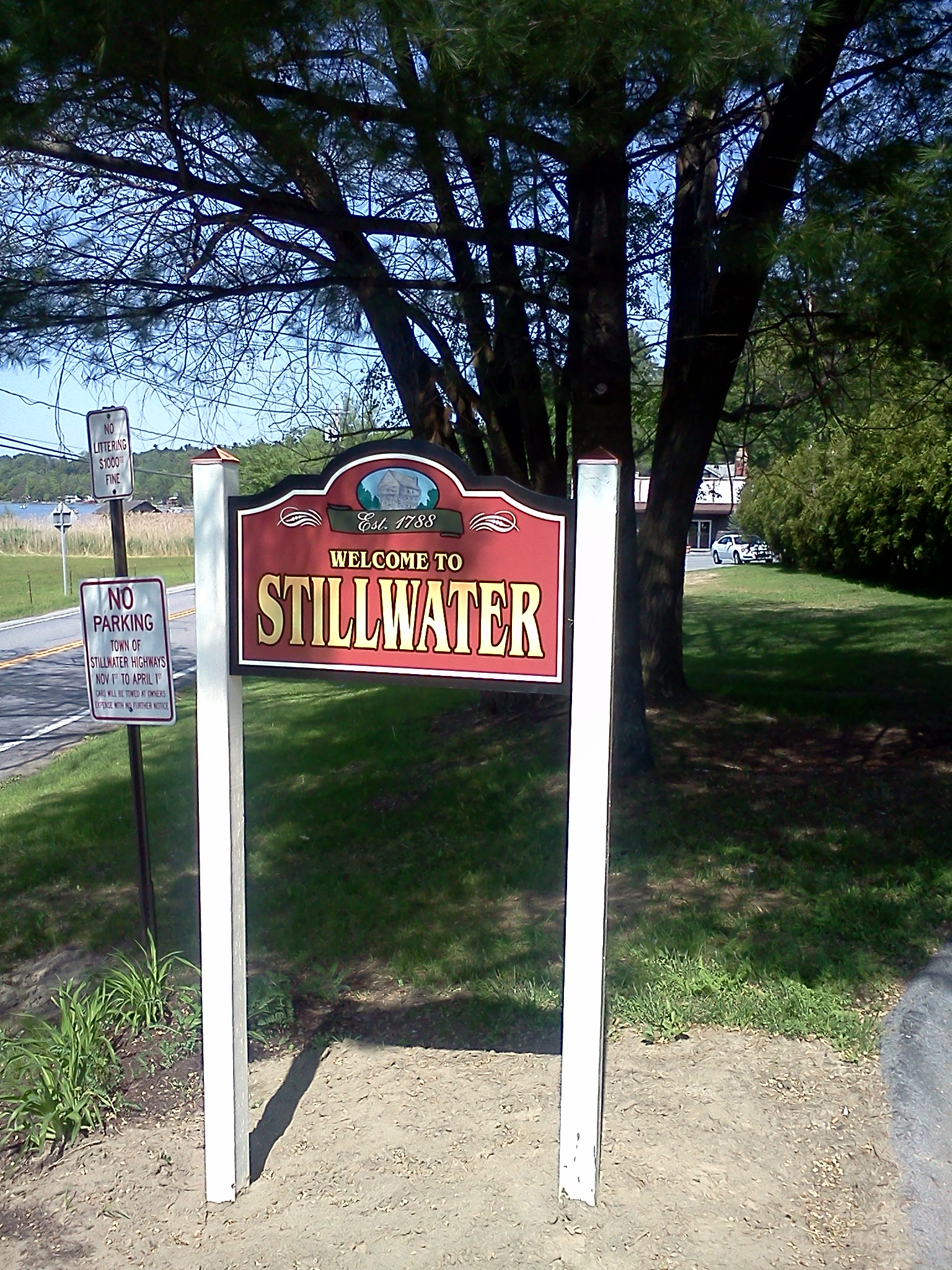 Welcome to Stillwater, New York sign, May 2012